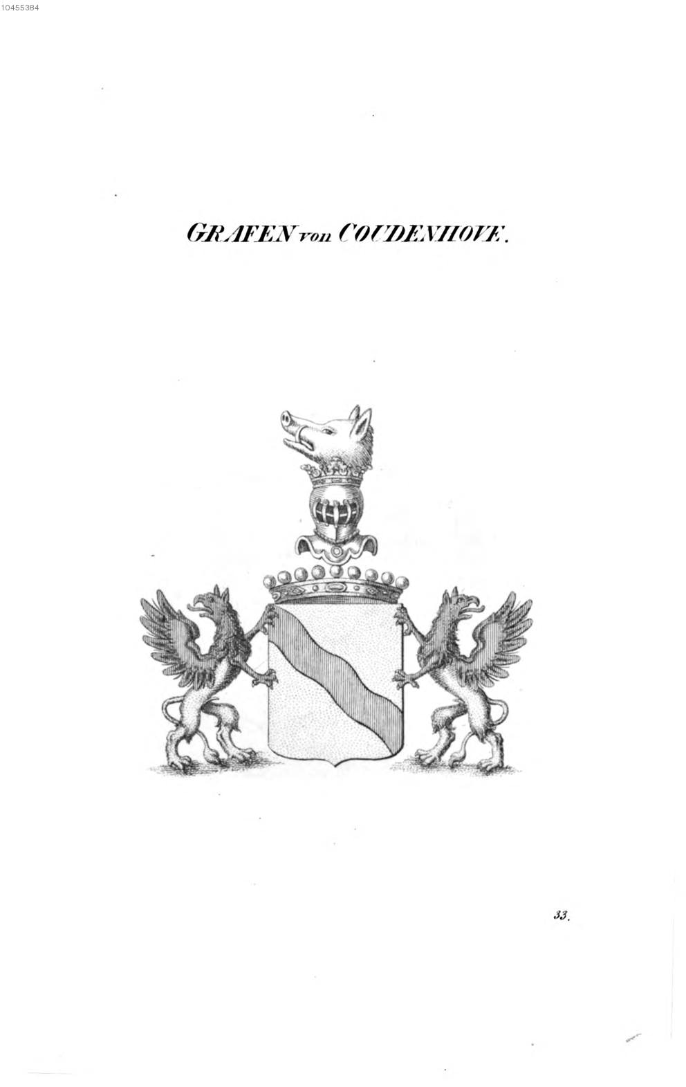 Wappen Coudenhove - Tyroff HA.jpg